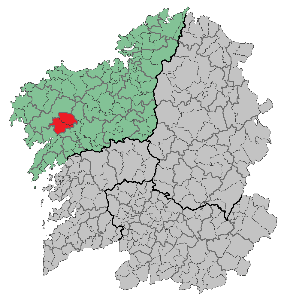 Region of Galicia (Spain)Based in: Image:Location of Negreira.png Source: Designed by Leoplus. Original picture, designed by Caiser over a work made by Alyssalover.